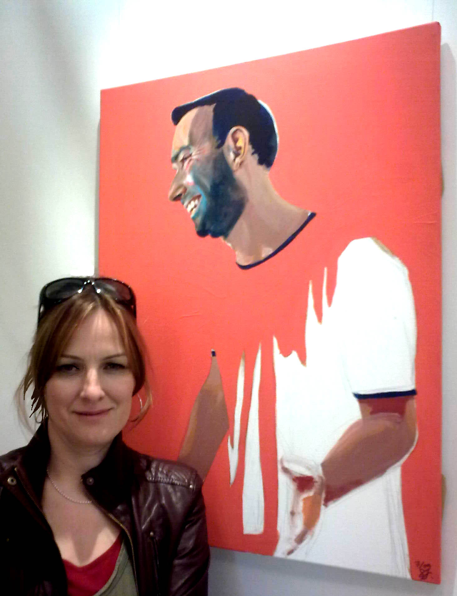 Artist Sanna Jalomäki and painting entitled Kostas